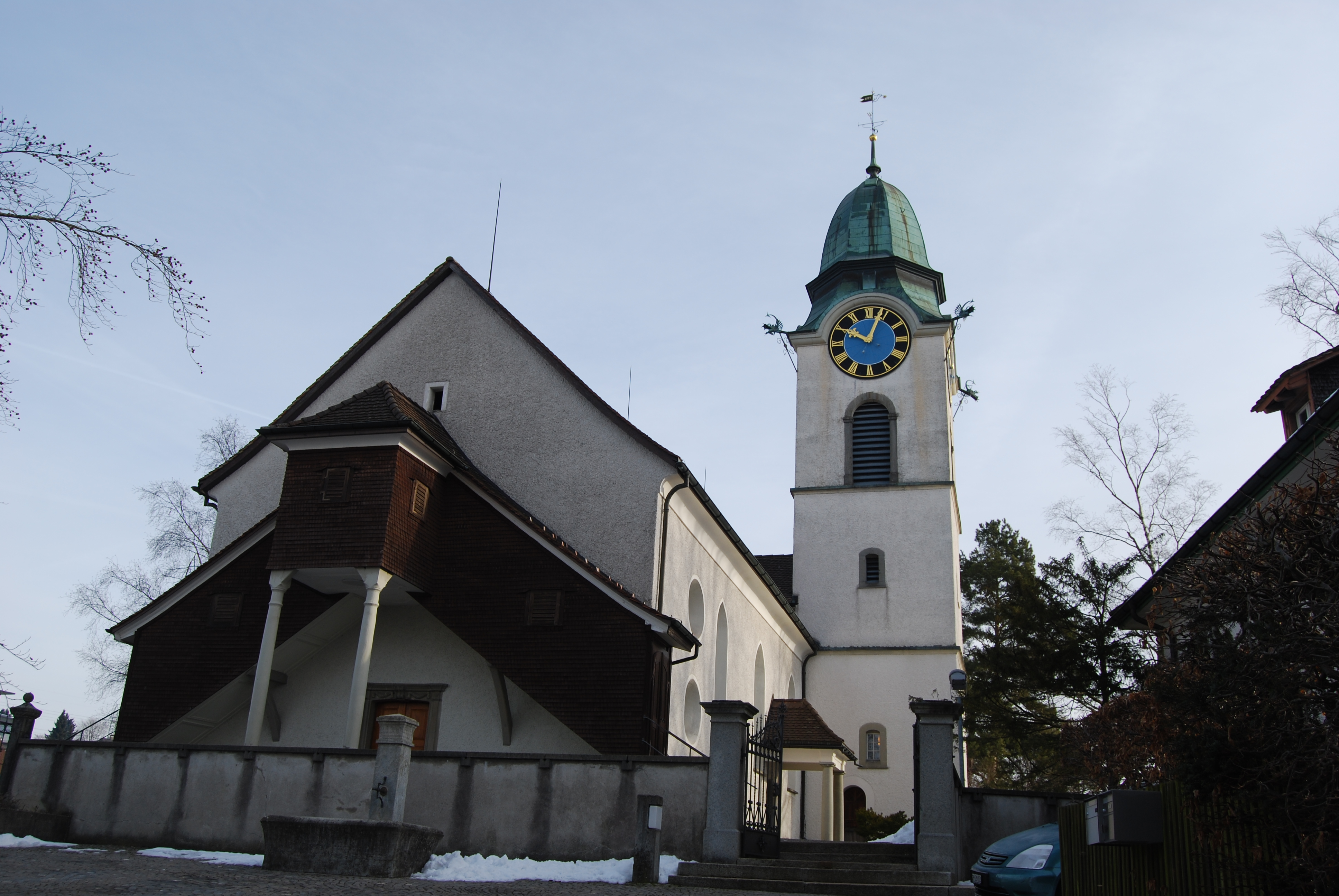 Church of Russikon, canton of Zürich, SwitzerlandEsperanto: Preĝejo de Russikon, Kantono Zuriko, Svislando